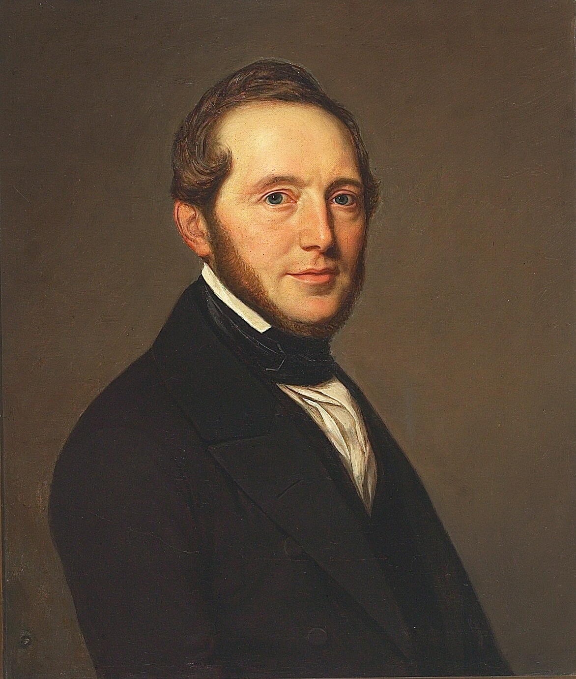 In 1839, Nis Clason was permitted by the King of Denmark to make and dye clothing at Skarrild in Jutland. He built a facory there, which as active until 1893. In May 1850, however, the Clason family settled in Bonn i Prussia.